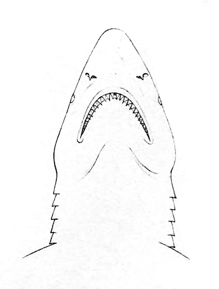 Carcharhinus falciformis